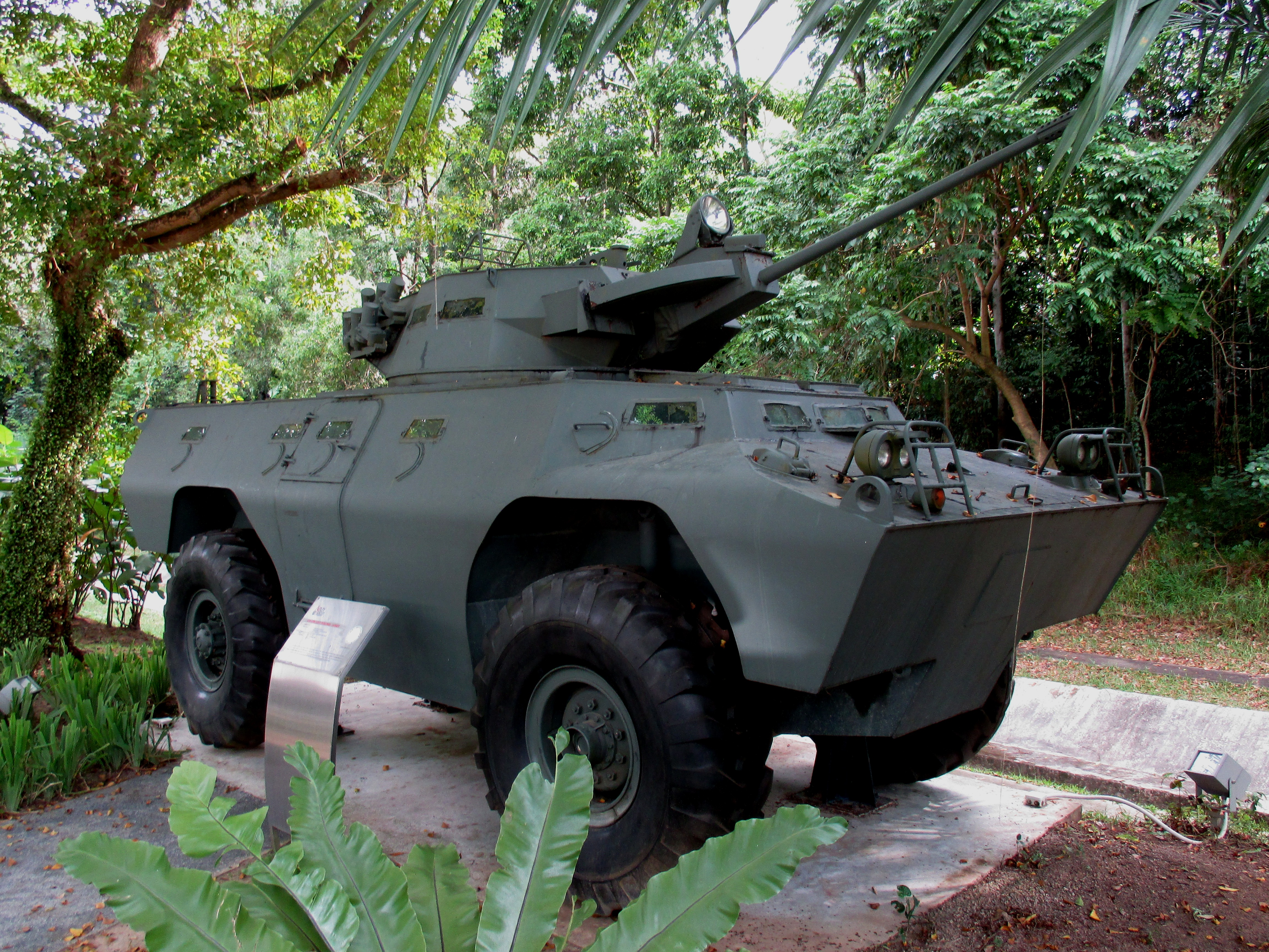 Description: V-200 Commando armoured car with 20mm gun at the Singapore Army Museum, Discovery Centre, Singapore.